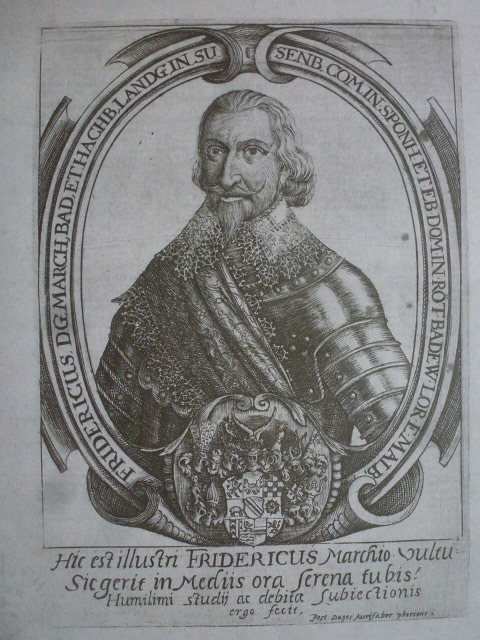 Portrait from Margrave Friedrich V.